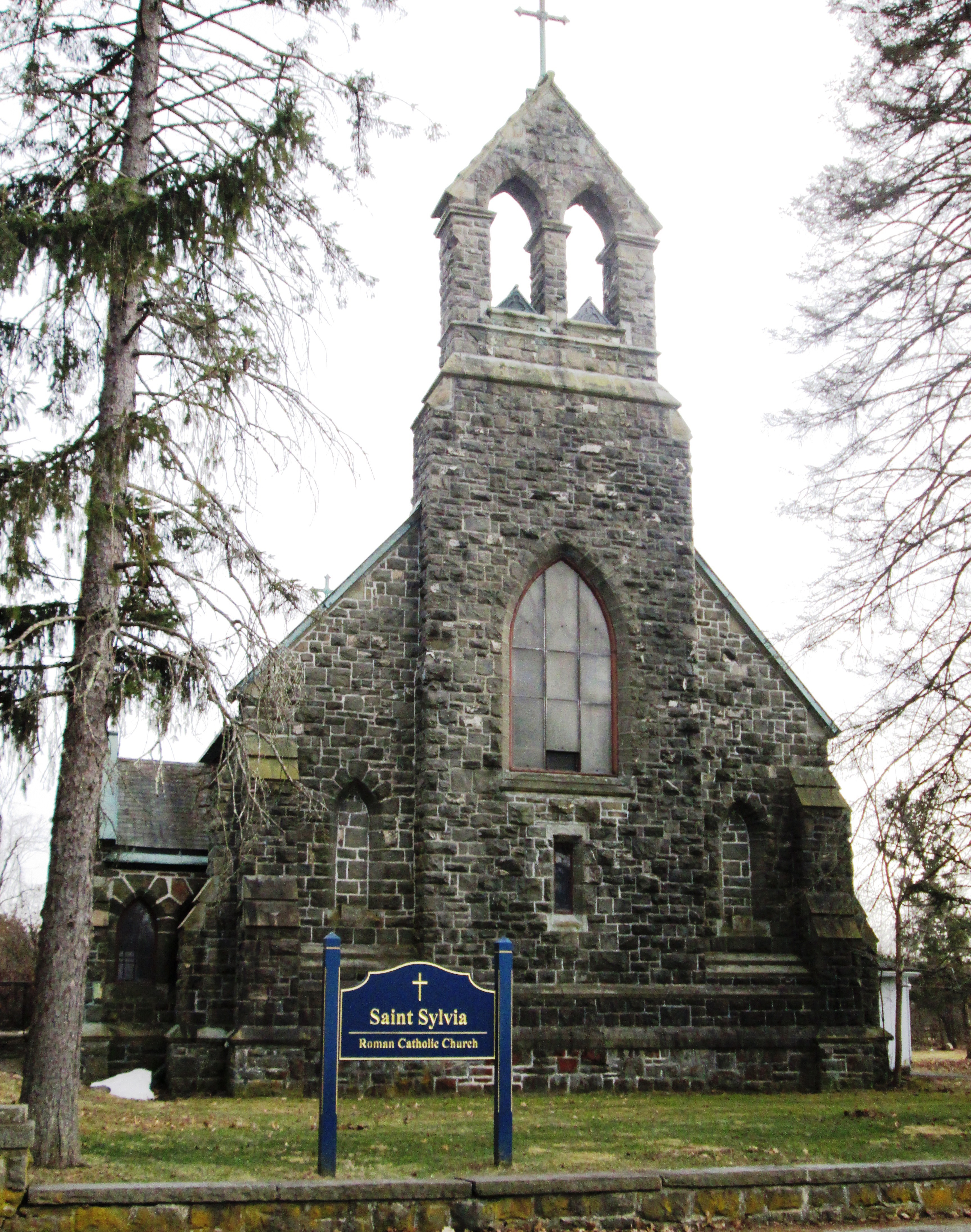 St. Sylvia's Roman Catholic Church, located at 104 Broadway in Tivoli, New York, was founded in 1852, with a congregation of Irish and German immigrants. It became a mission of Barrytown in 1886, and its own parish in 1890. The original church was replaced by the current building in 1902. In 2015, the parish of St. Sylvia in Tivoli was merged with St. Christopher's Church in Red Hook. The church building is still occasionally used for services.